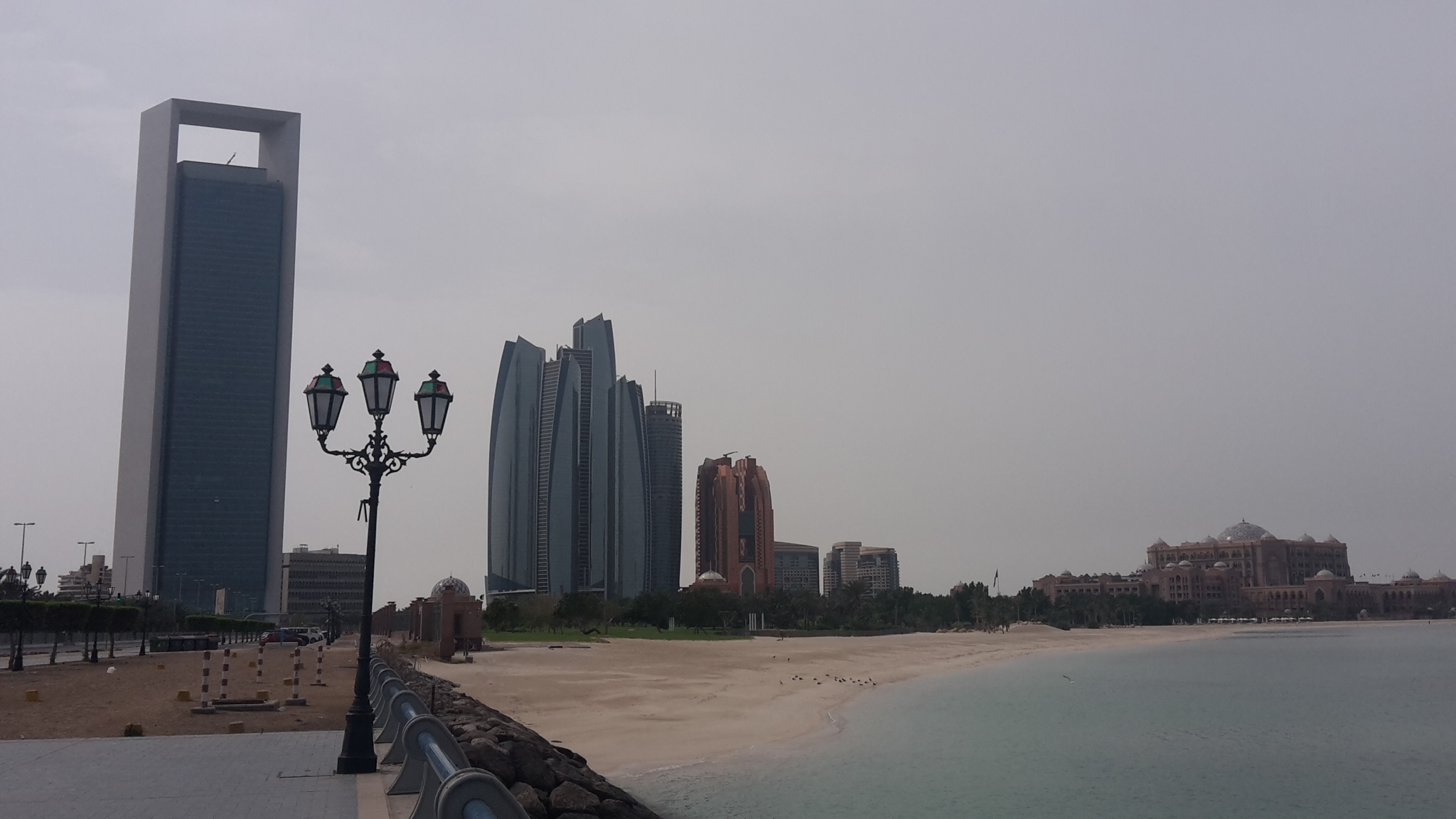 Skyline of Abu Dhabi with ADNOC Headquarters, Etihad Towers and Emirates Palace Hotel